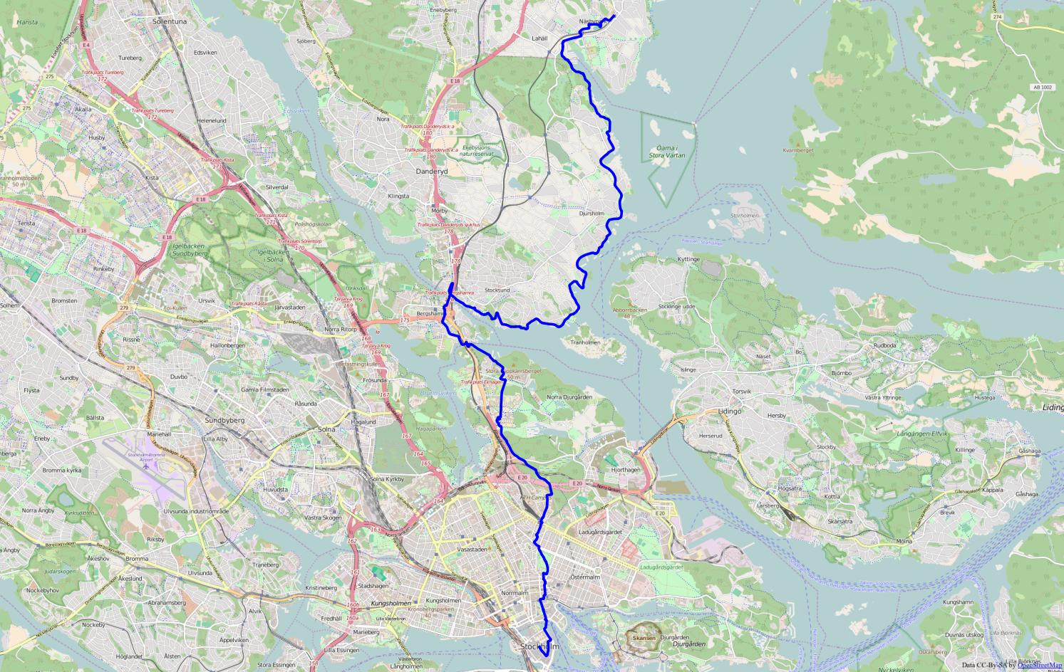 The Näsbyparkstråket hiking trail in Stockholm, Sweden.